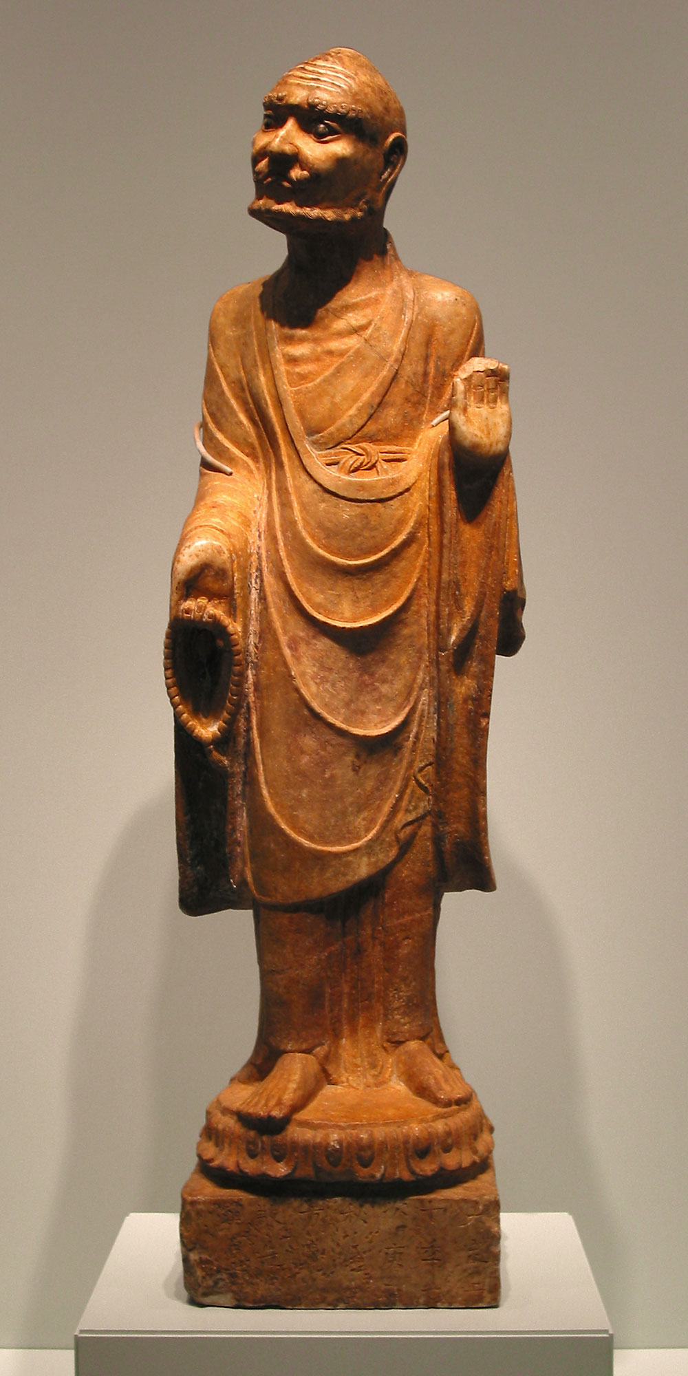 This image was taken in the Asian Art Museum of San Francisco by Didactohedron, and adjusted by him with Adobe Photoshop. The plaque beneath the statue had the following text: Arhat (Chinese: luohan), dated 1180 China Jin dynasty (1115-1234) Marble Dressed in the clothes of a monk and holding a rosary, this emaciated and intense figure has the appearance of an eccentric monk. In fact, he is an example of a special group of Buddhist deities known as arhats. The historical Buddha, Shakyamuni, had a group of disciples who recorded his sayings and continued his teachings after he attained nirvana. These figures were deified as arhats, beings who have reached a stage of perfection through study and meditation. Unlike bodhisattvas, who are noted for their compassion, arhats are noted for their intense powers of spiritual concentration. It is common for Chinese artists to exaggerate certain features of these figures to emphasize their spiritual nature. They are often given qualities associated with Taoist immortals, and they appear in sets of varying numbers, eighteen and five hundred being the most common. Inscription: [In 1180] people everywhere [of a certain surname?] respectfully had made/donated one luohan image.